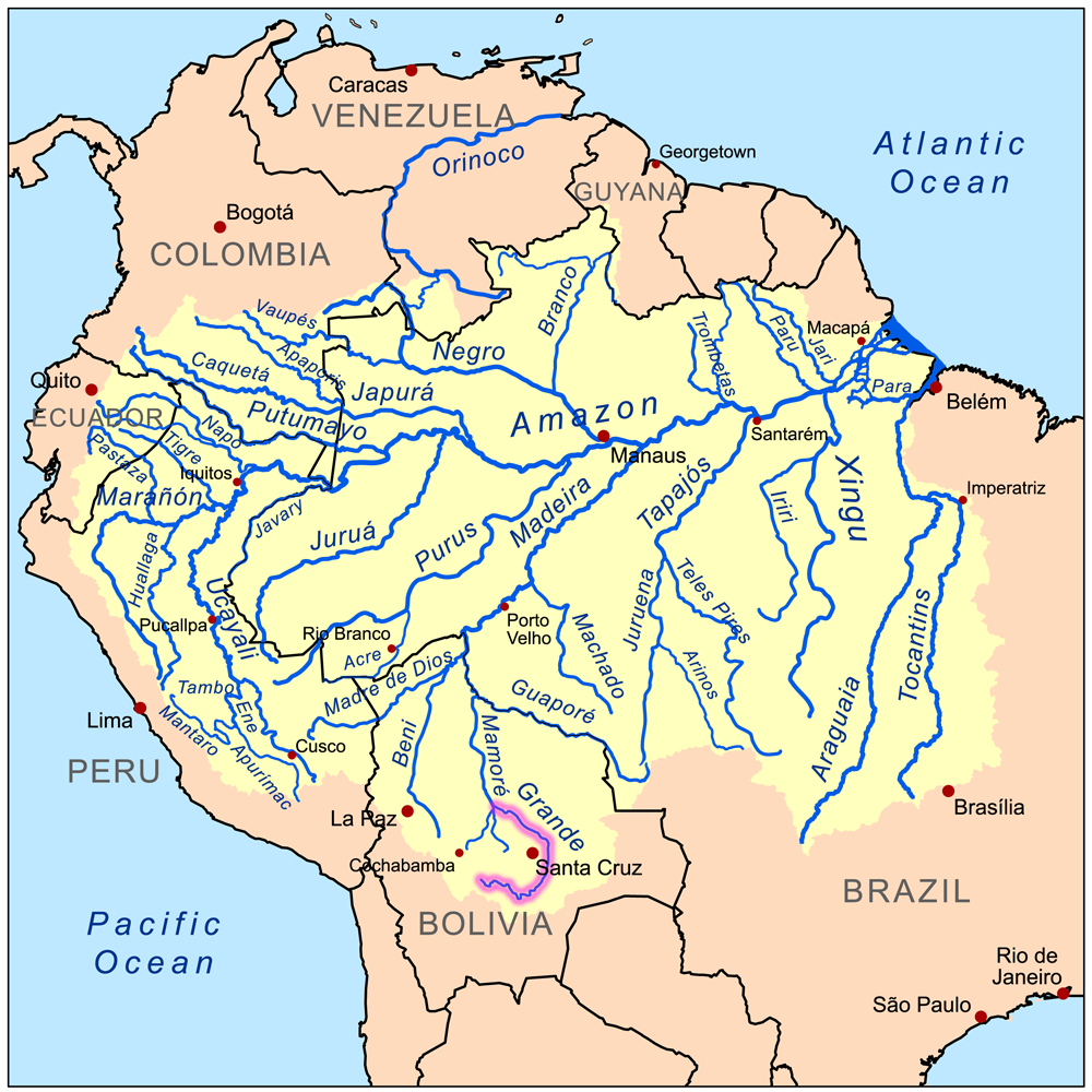 This is a map of the Amazon River drainage basin with the Grande River highlighted.